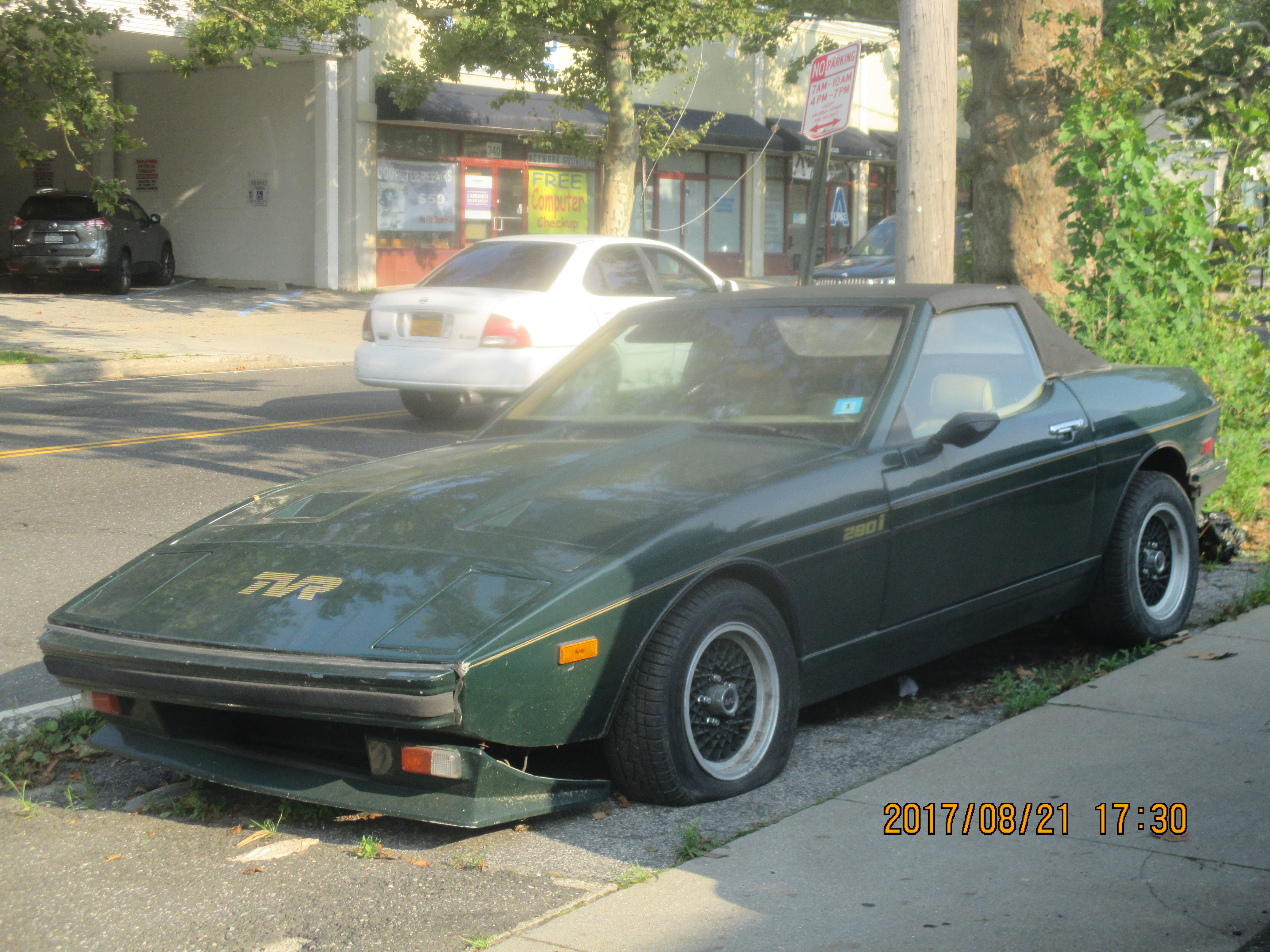 Abandoned TVR in NY